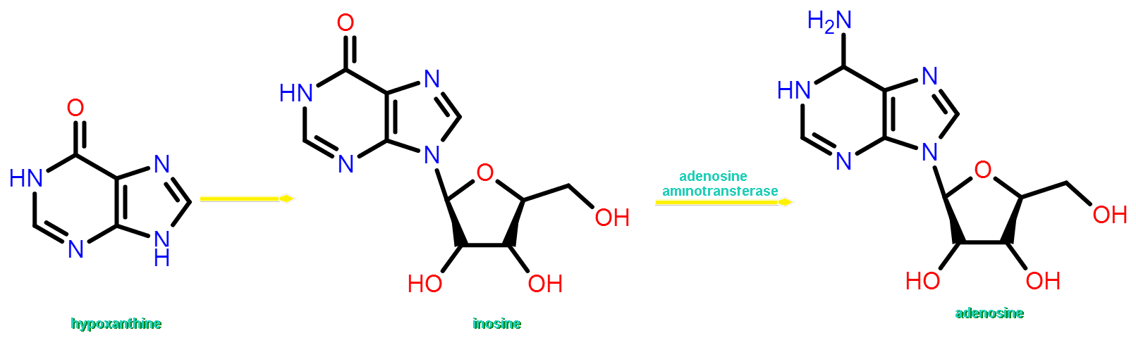 Inosine synthesis from hypoxanthine and amination to adenosine with the help of adenosine aminotransferase